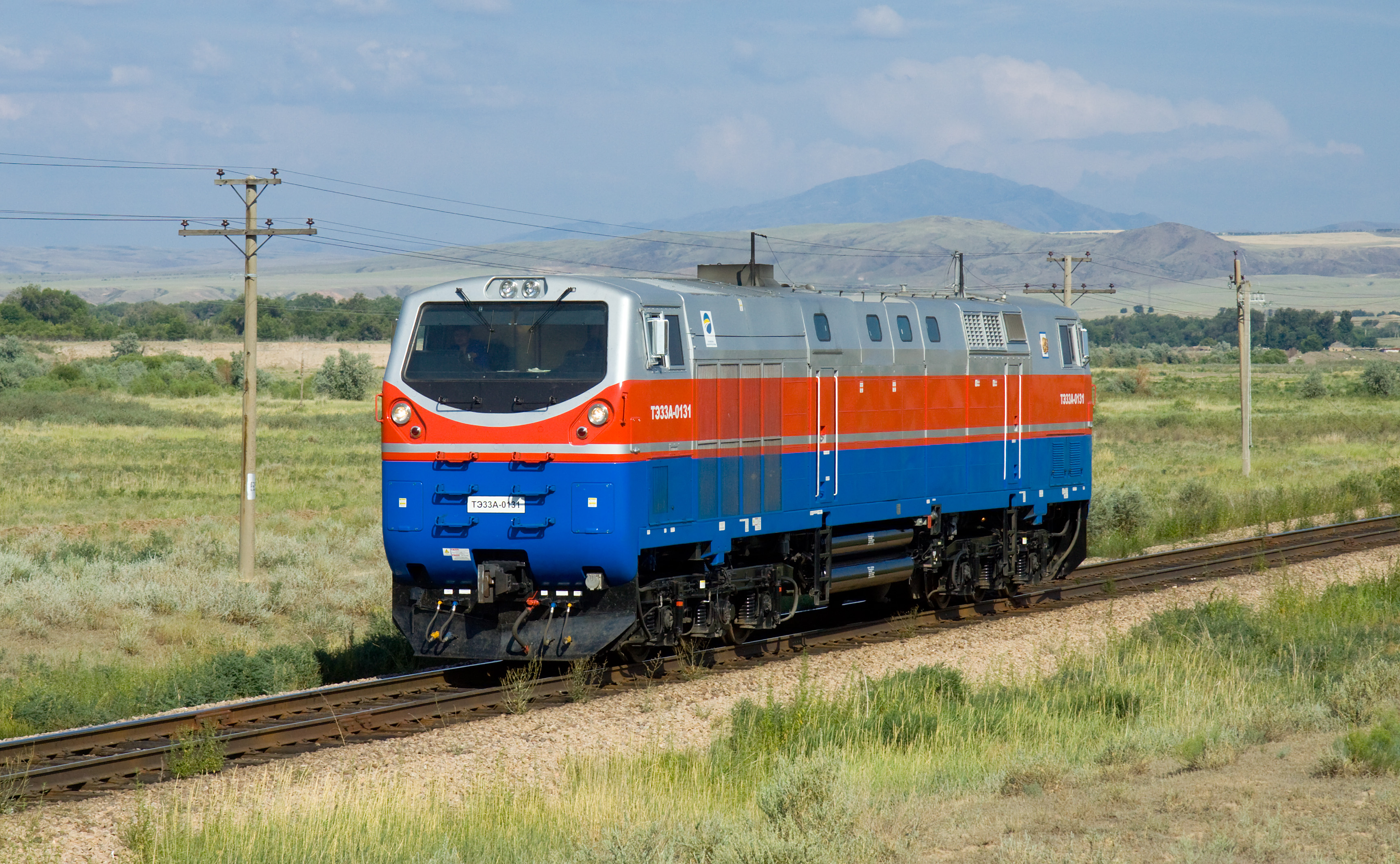 Kasachstan Temir Scholy class TE33A between Aynabulak and Kopr, Kazakhstan